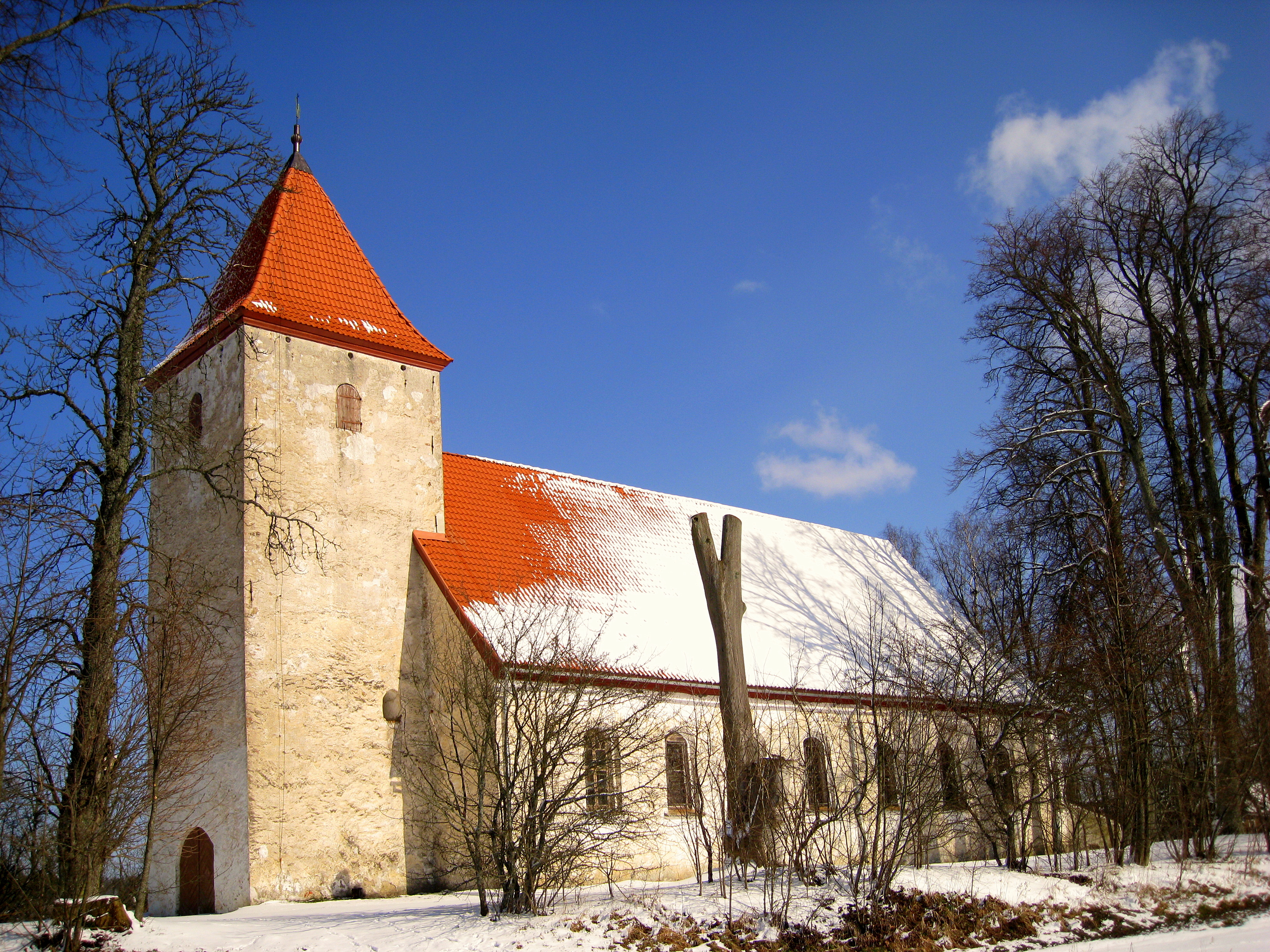 Valtaiki Evangelic Lutheran Church